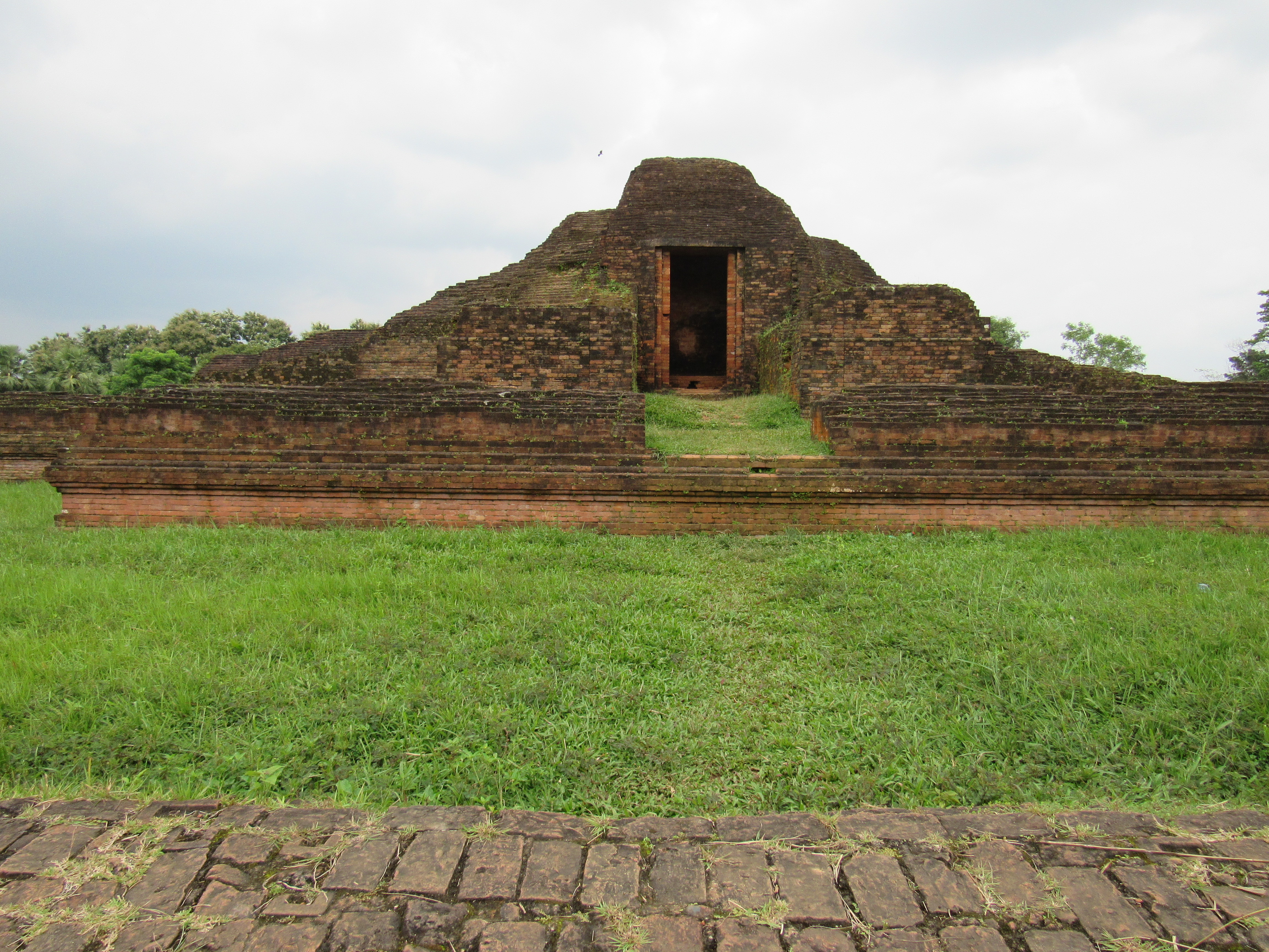 Rupban Mura, Comilla 11 September 2016